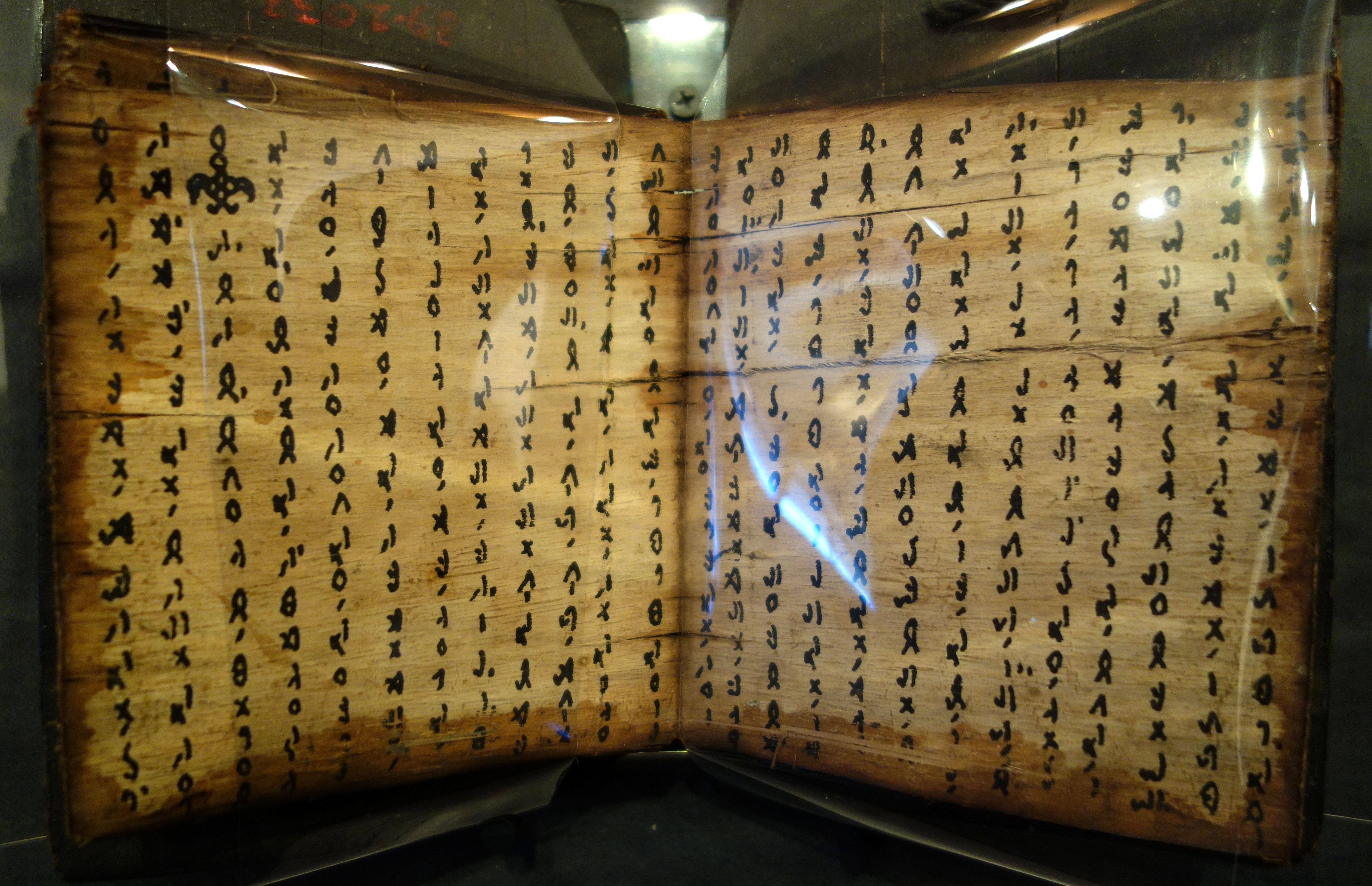 Exhibit in the Robert C. Williams Paper Museum, Atlanta, Georgia, USA. This work is old enough so that it is in the public domain.